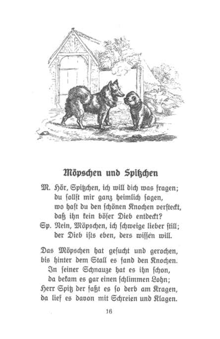 This is a scan of the historical document: Fünfzig Fabeln für Kinder